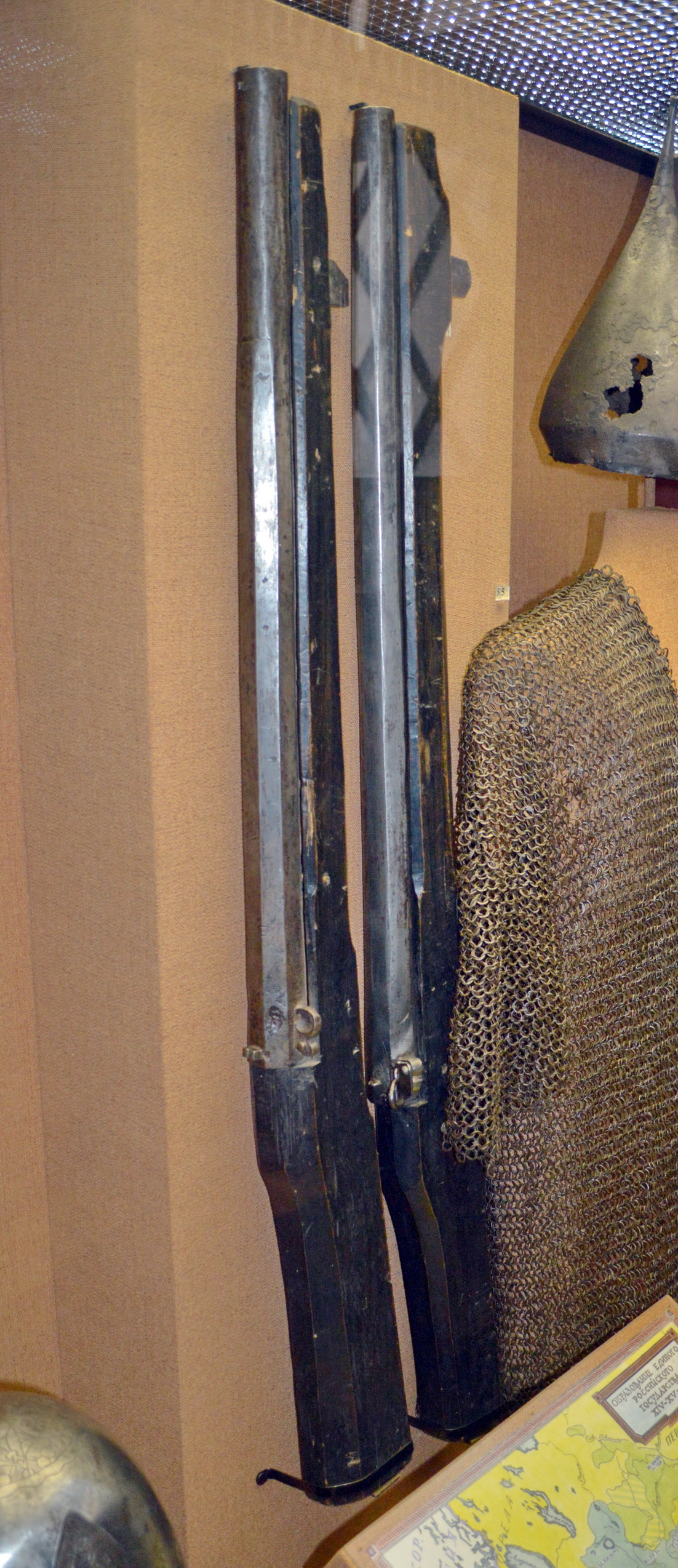 Firearms, Western Europe, second half of 15 c. Bronze, iron, wood.